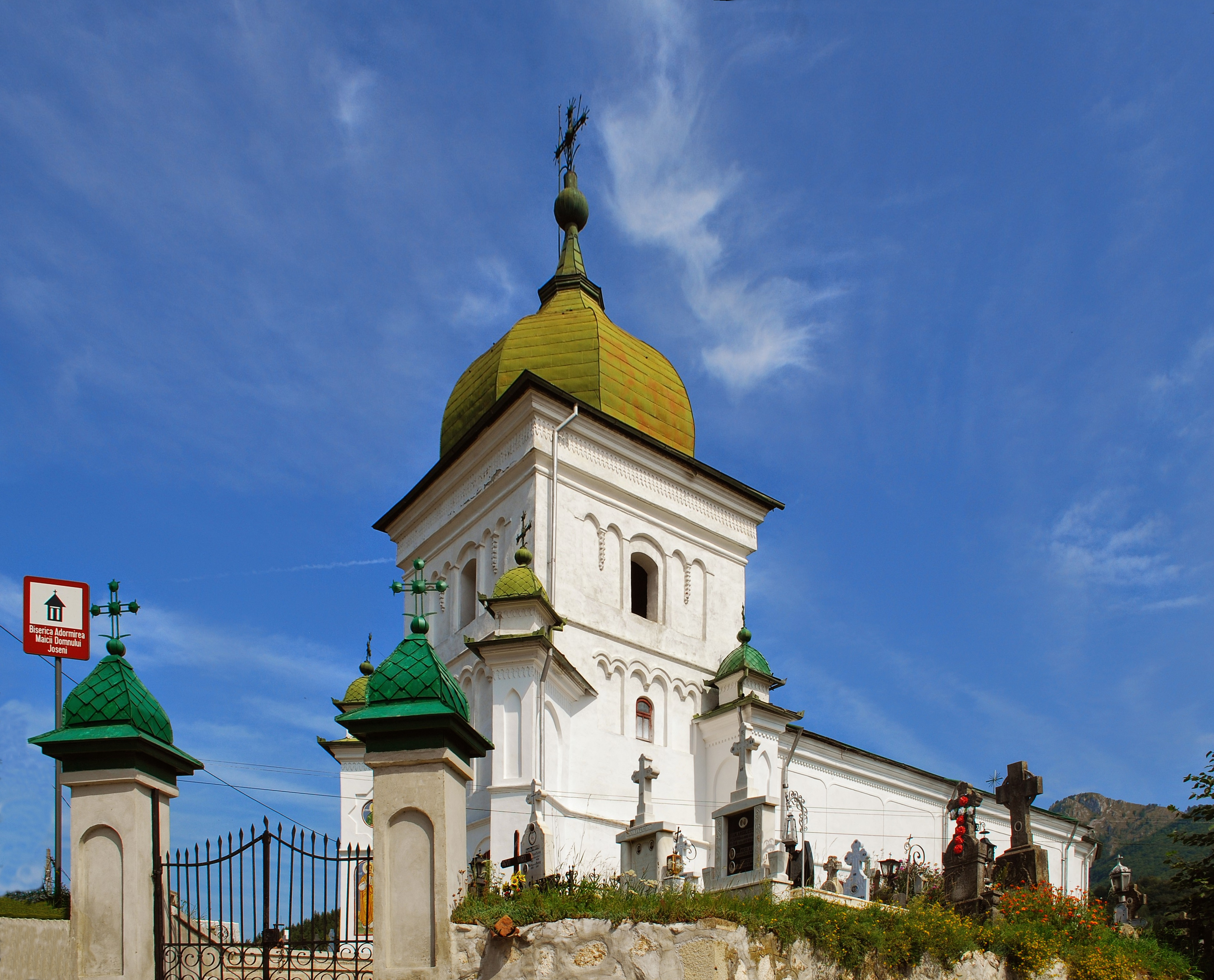 Church of the Dormition ("Joseni") in Dragoslavele, Argeș County, RomaniaRomână: Biserica „Adormirea Maicii Domnului” - Joseni din Dragoslavele, județul Argeș, România